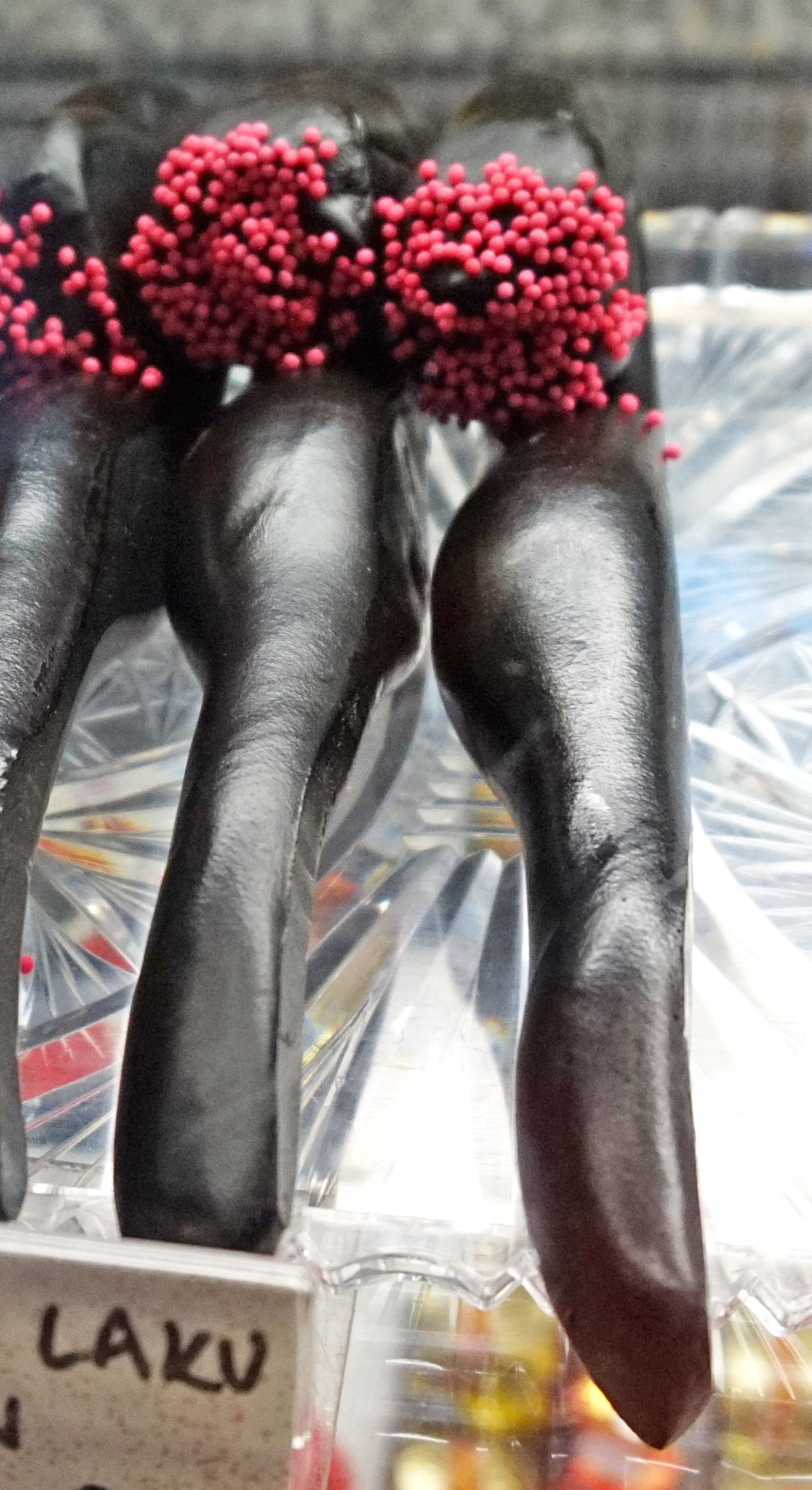 Liquorice pipes in market hall of Kuopio.